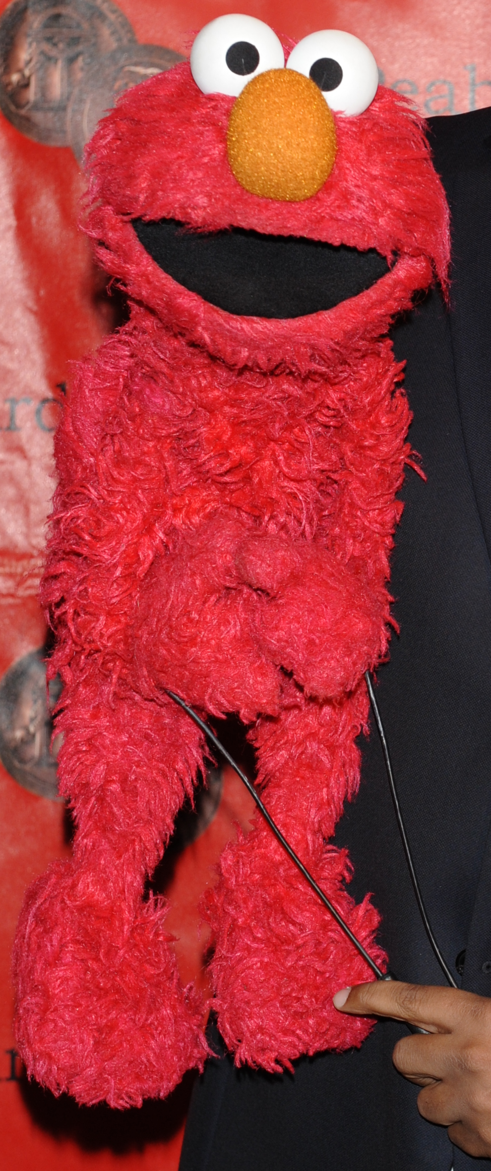 Elmo and Kevin Clash 69th Annual Peabody Awards Luncheon Waldorf=Astoria Hotel New York, NY USA May 17, 2010